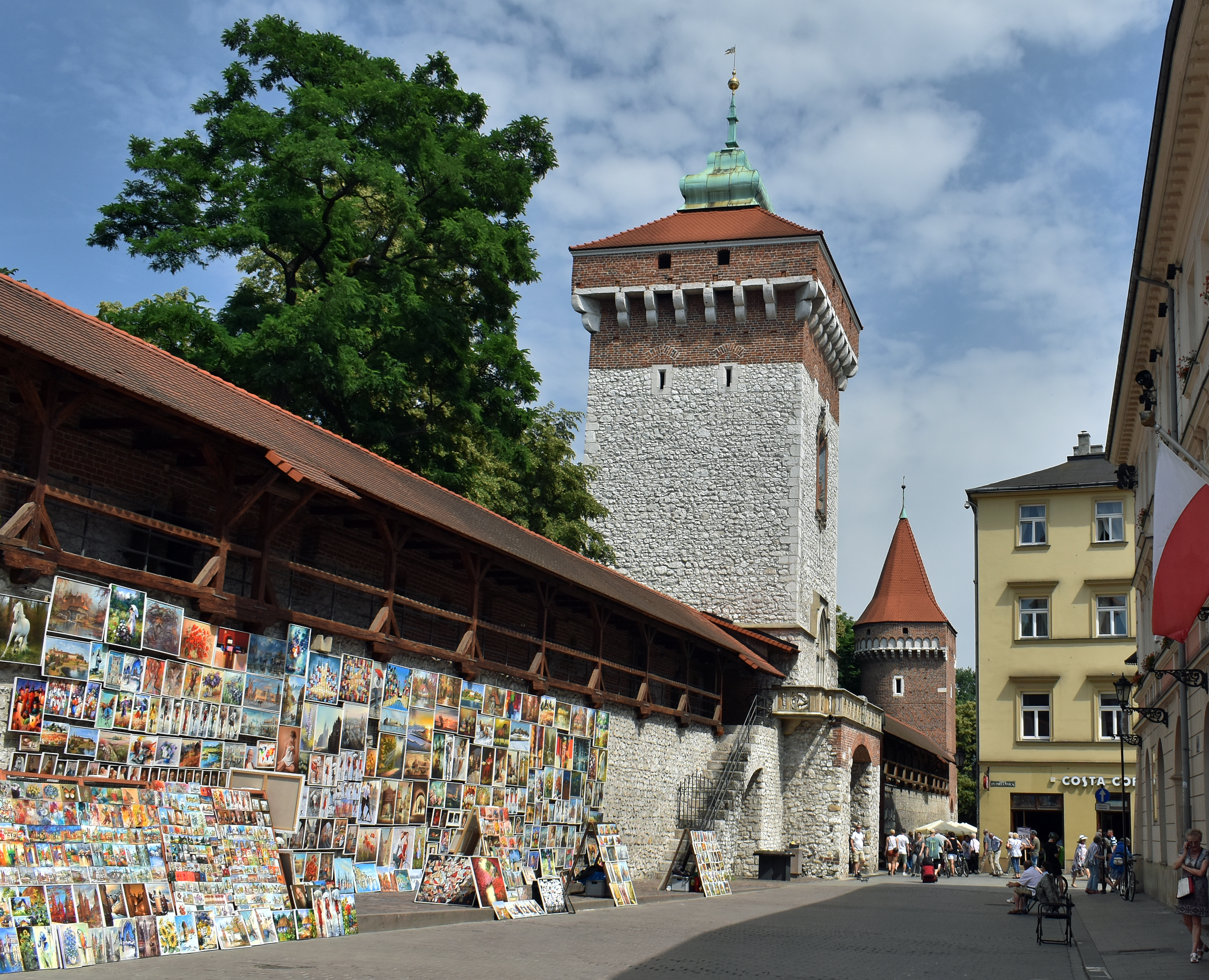 City Walls of Krakow, Pijarska street, Old Town, Krakow, Poland